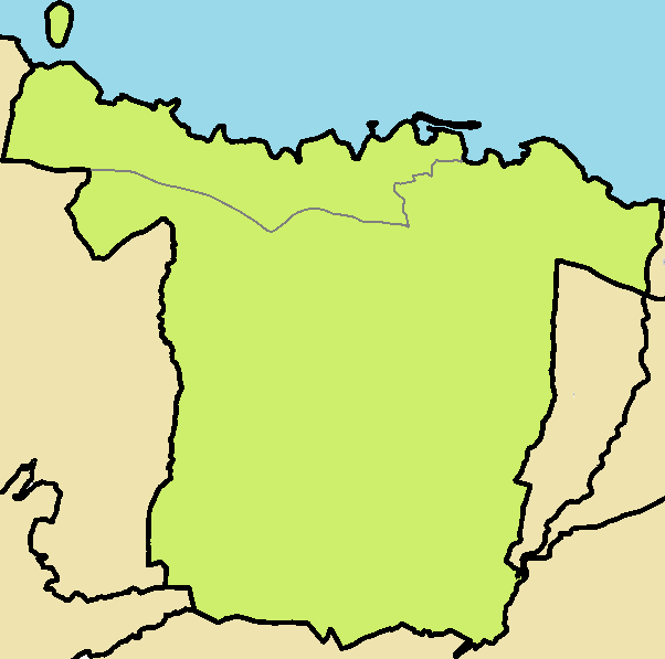 Kyrenia Municipality with quarters (de jure).